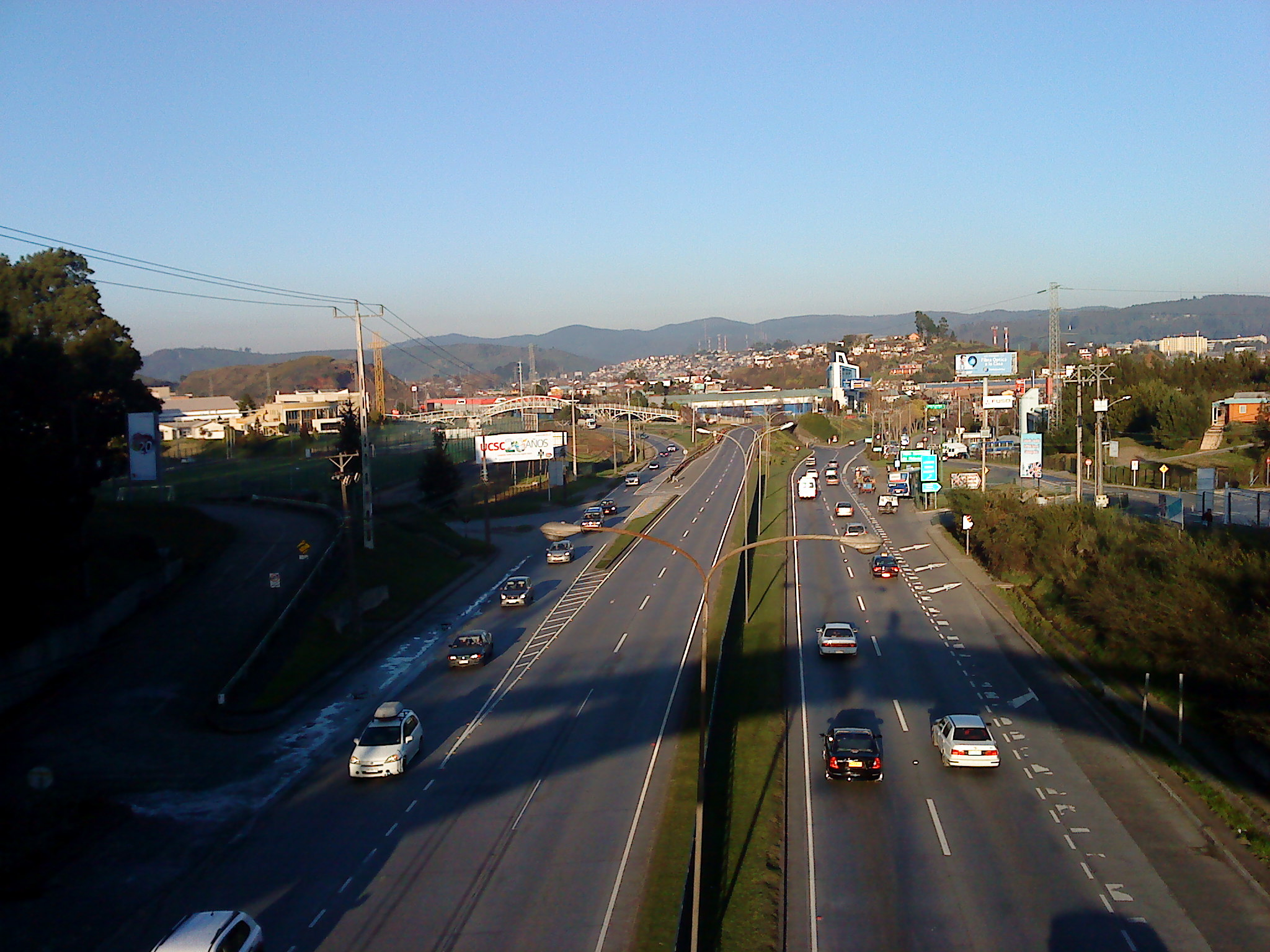 link paicaví - alonso de rivera - autopista concepcion talcahuano